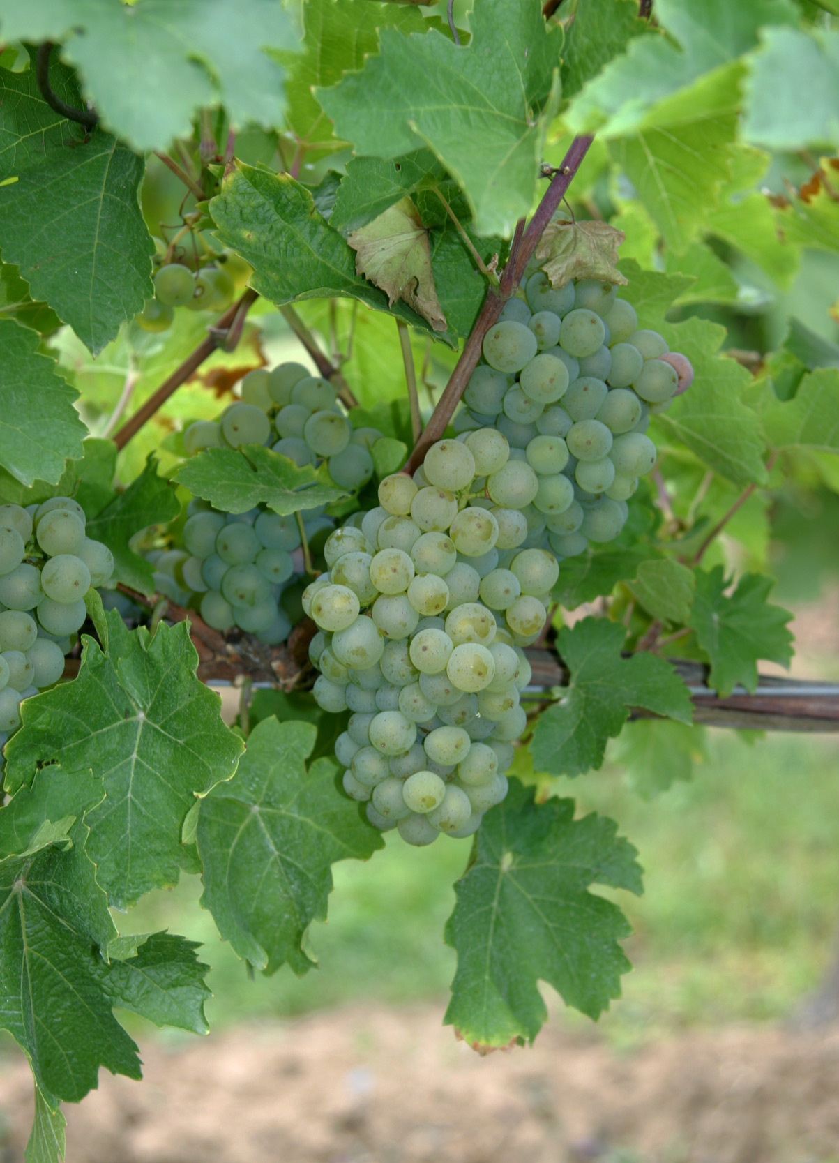 Leafs and grapes of the grape variety Goldriesling.